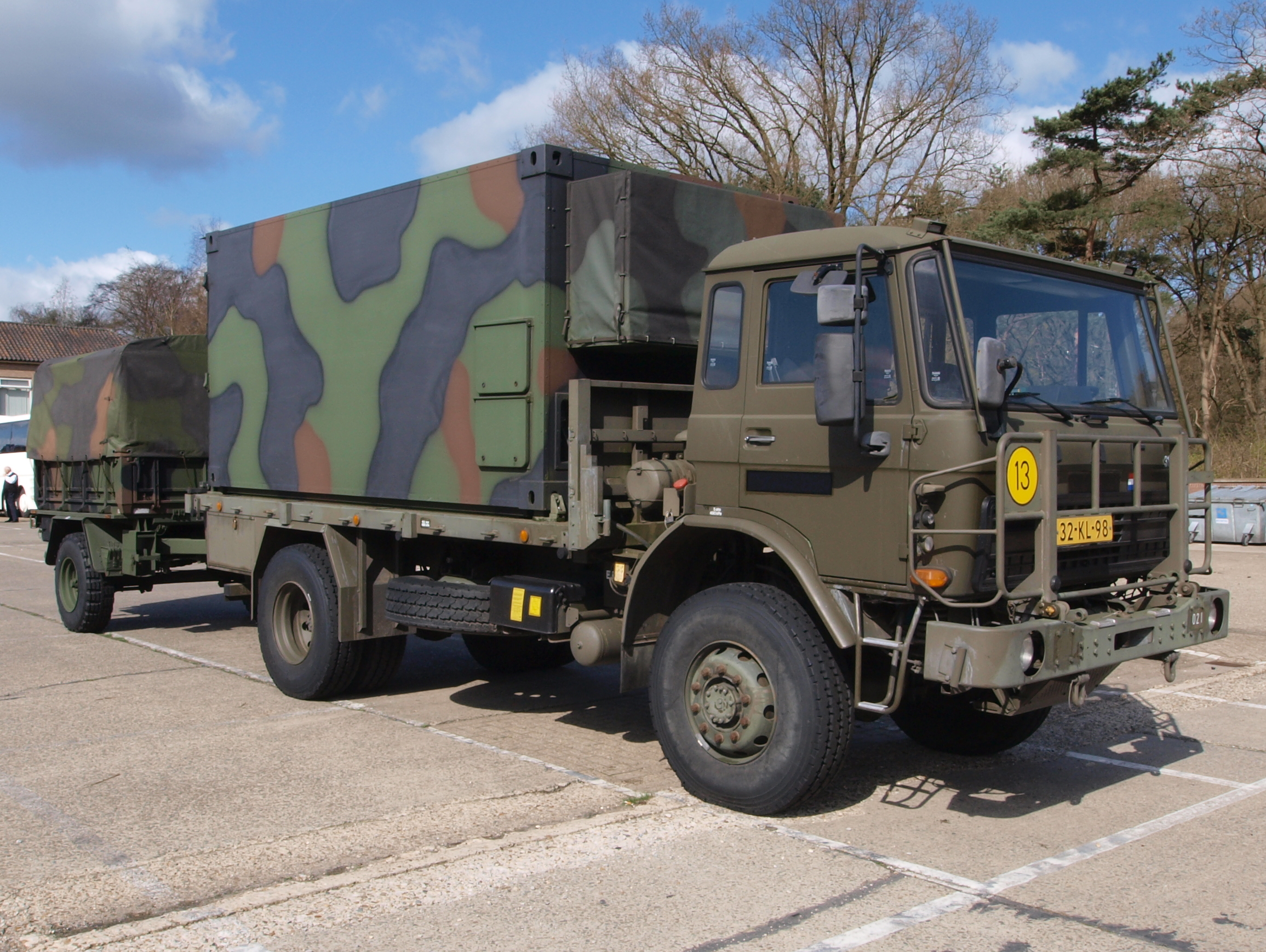 DAF military truck.